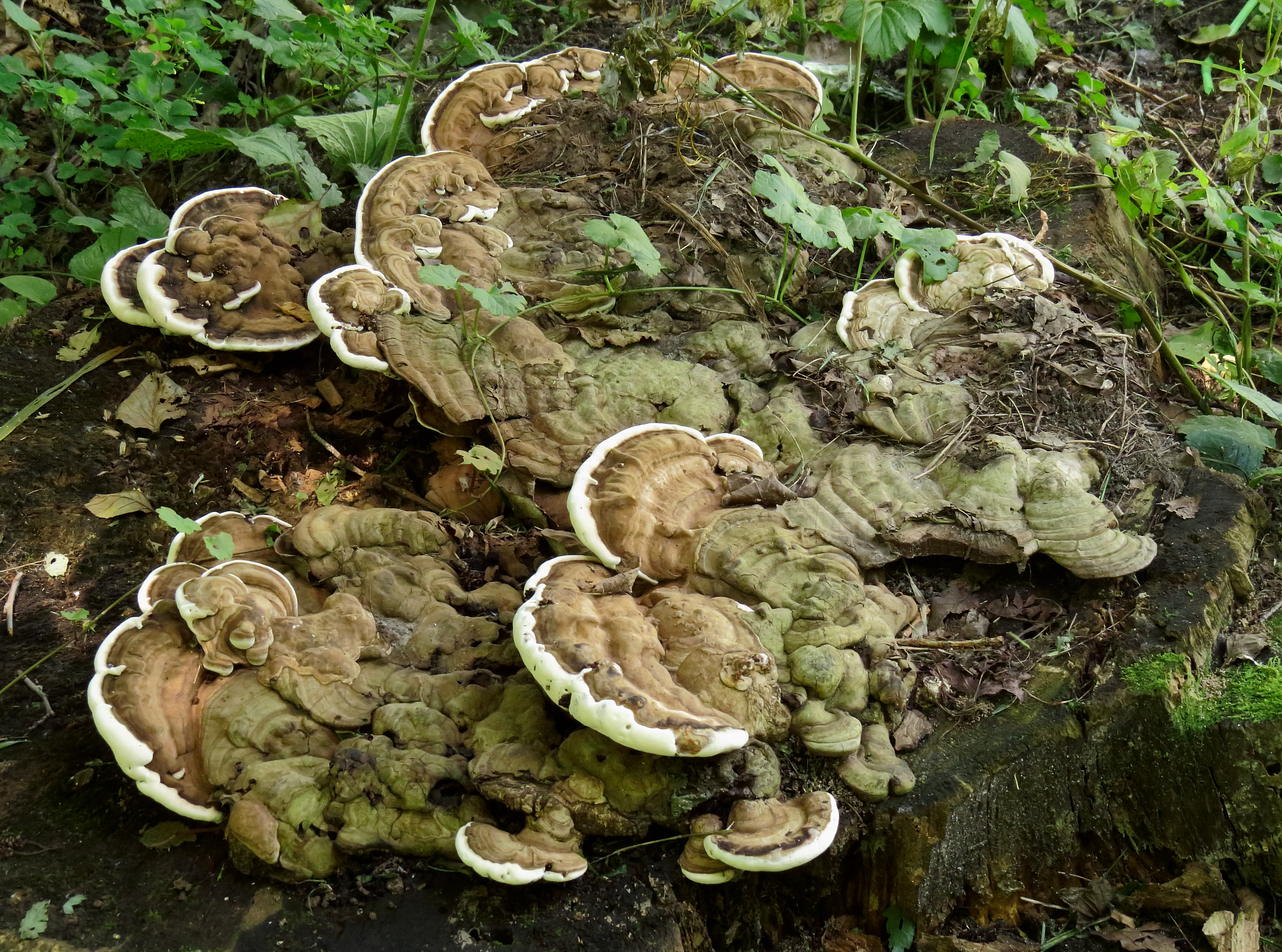 Ganoderma applanatum in M. T. Rylsky park, Kiev, Ukraine